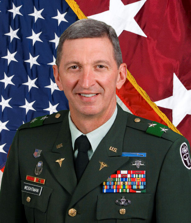 Major General George W. Weightman from [1]. Image URL [2]